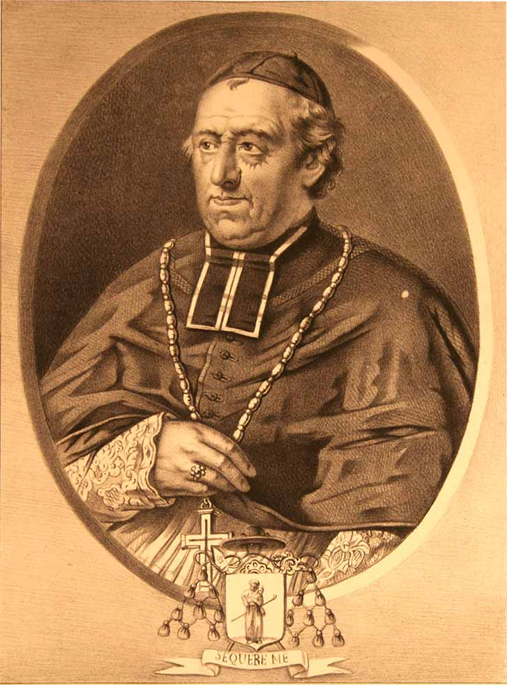 Illustration from the book 'L'Histoire du Diocèse de Bruges', edited by Joseph Canneel